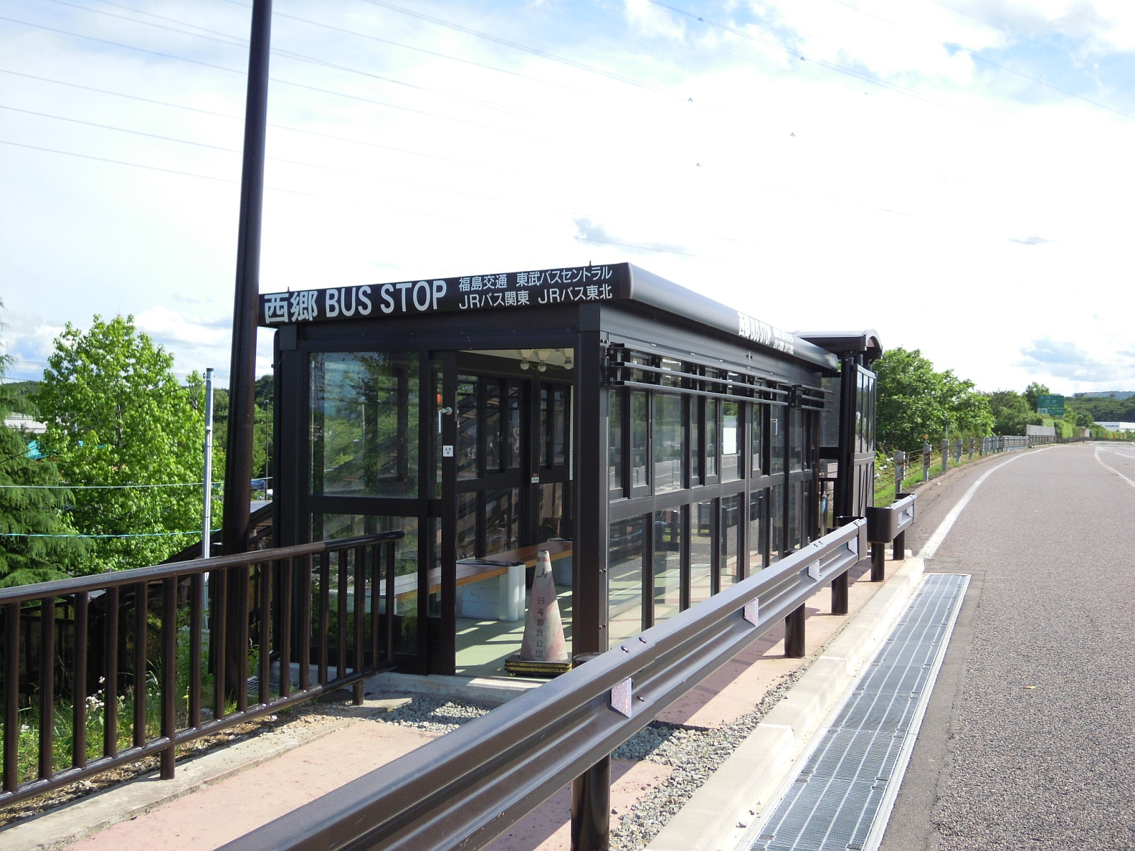 Nishigo Bus Stop on the Tohoku Expressway in Nishigo Village, Fukushima Prefecture, Japan